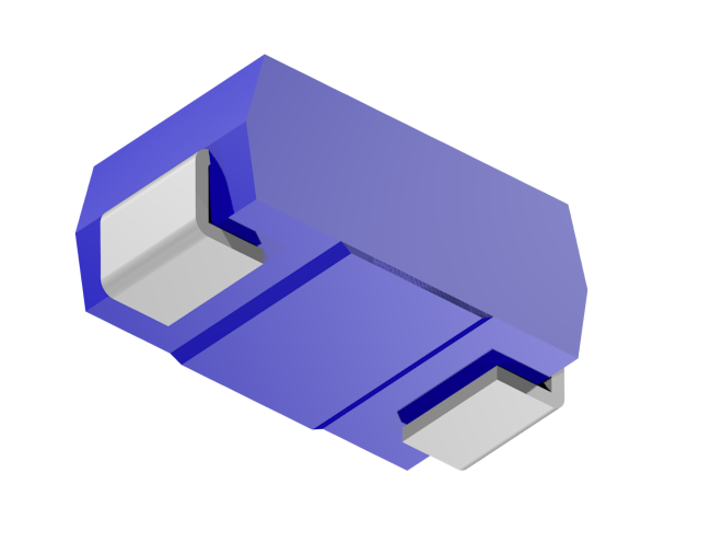 Free view from the bottom to the SMA package (usable for SMB and SMC packgage also).